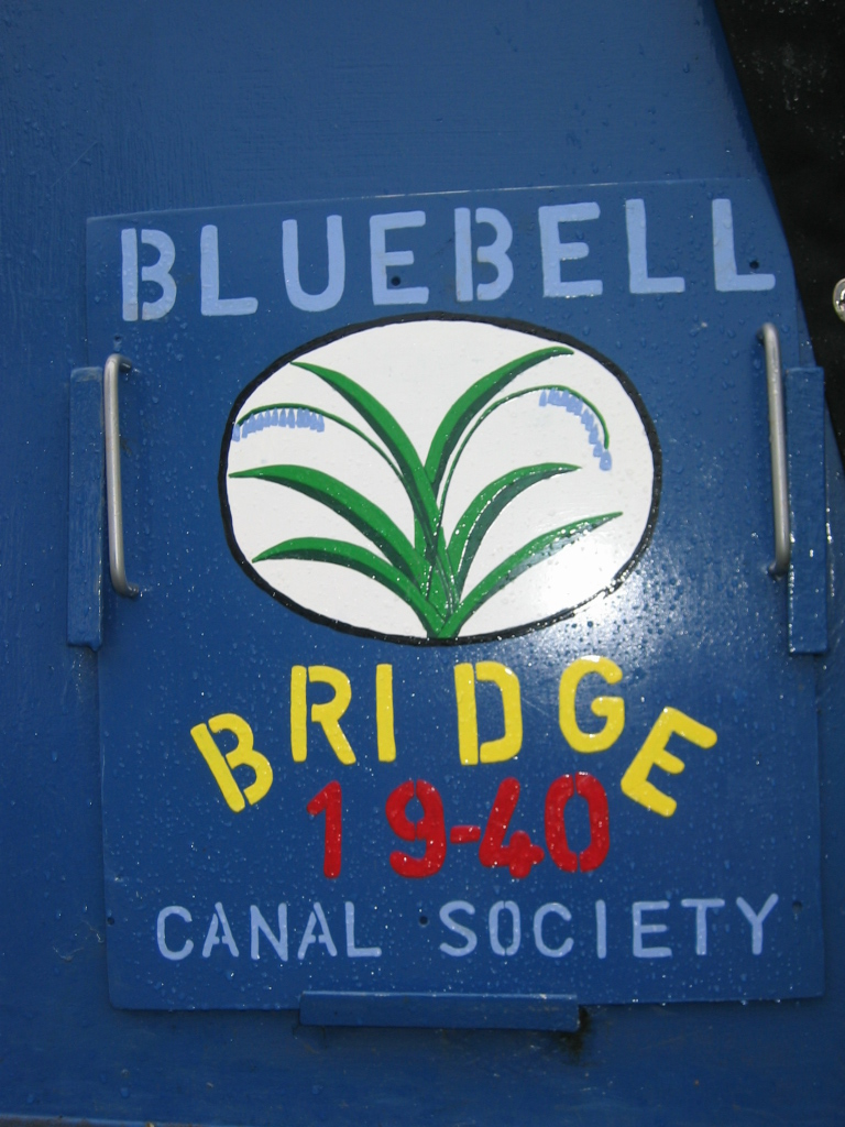 Narrowboat Bluebell